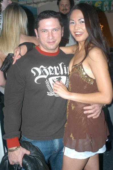 Nyomi Zen, John Strong at LA Direct Model's Party, Dec 19, 2005